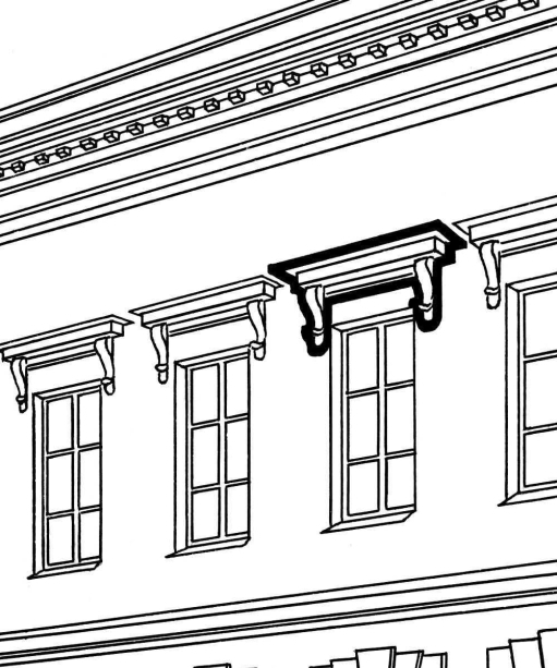 A small ledge often with pediment, above the window or door.